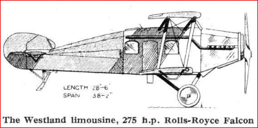 Westland Limousine side view line drawing